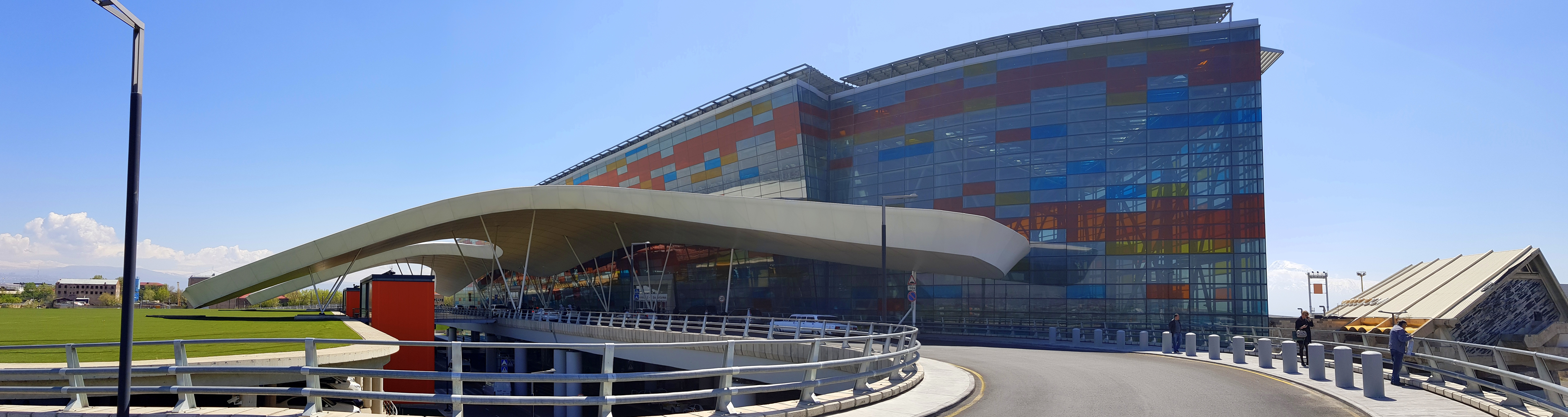 Zvartnots International Airport